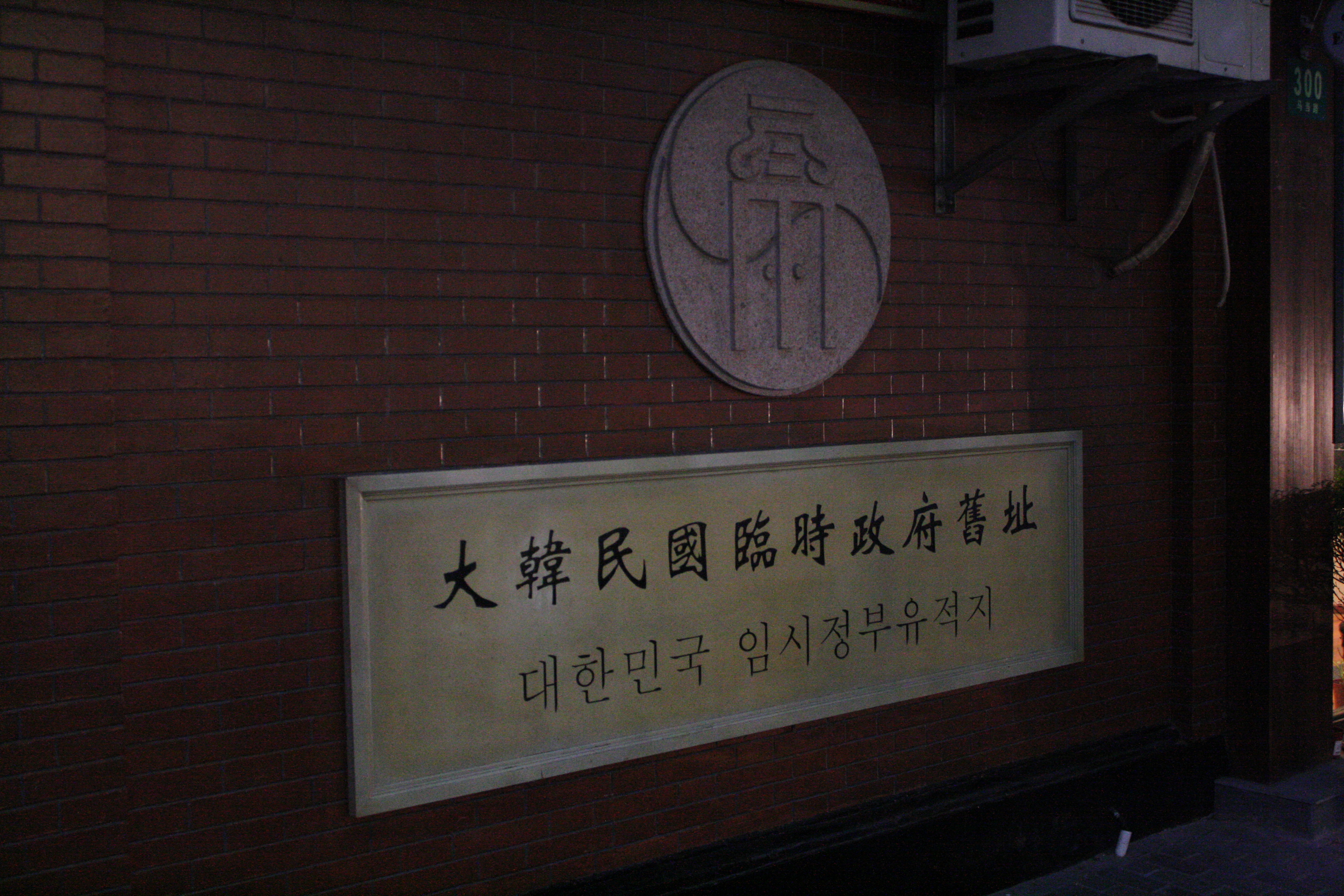 Entrance wall of Provisional Government of ROK in Shanghai